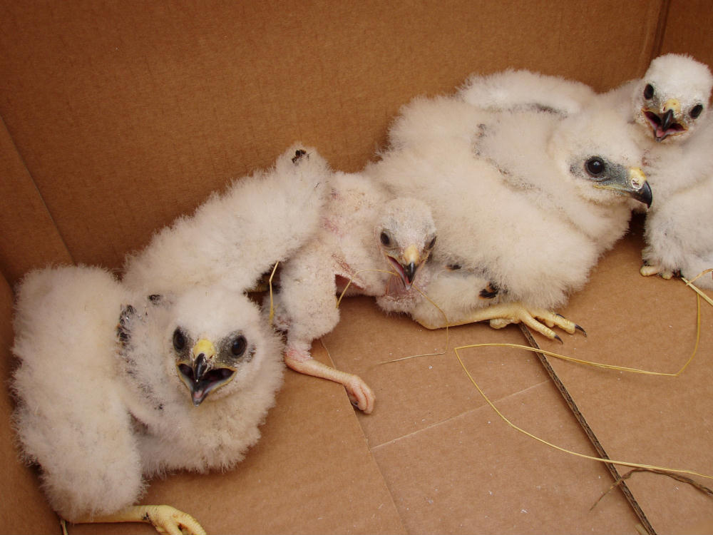 Young montagu's harriers("Circus Pygargus")being carried to safety